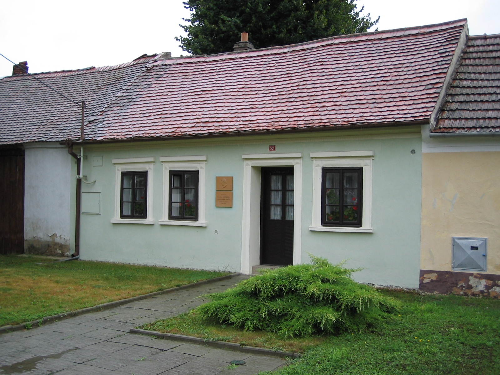 Native house of Karel Benedík in Kozojídky